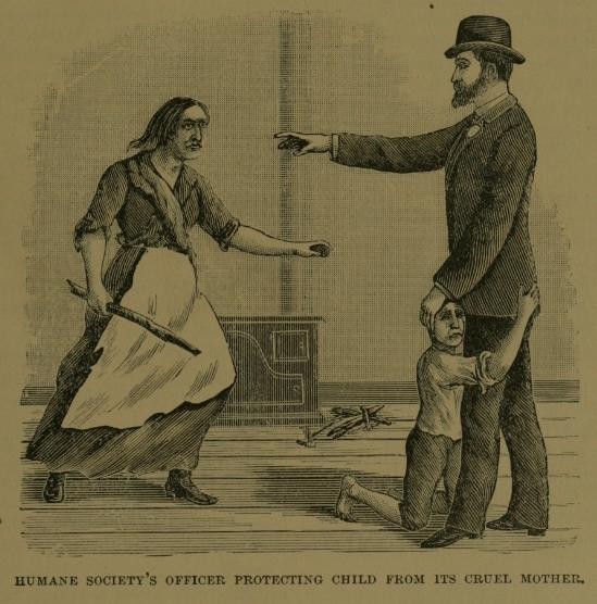 Book illustration